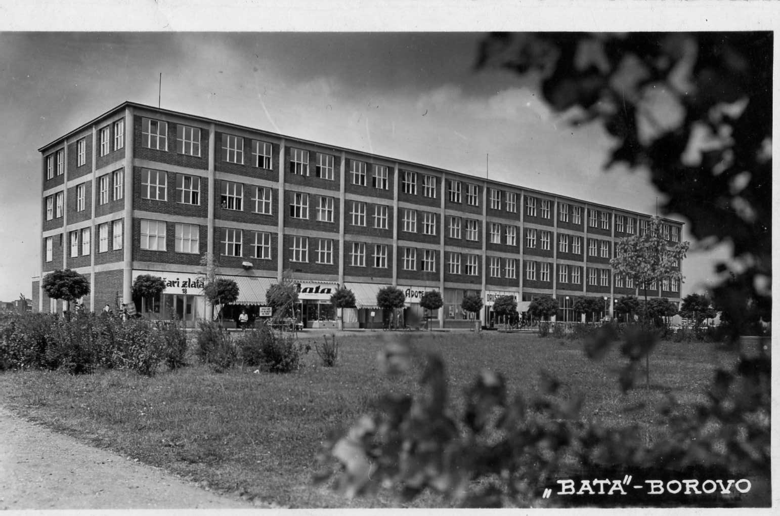 The standard hotel and shopping parade of a Bata satellite town, this one in Yugoslavia, present day Croatia, at Borovo Vukovar.